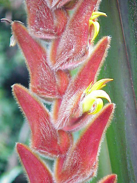 Species: Heliconia vellerigera Family: Heliconiaceae Image No. 2